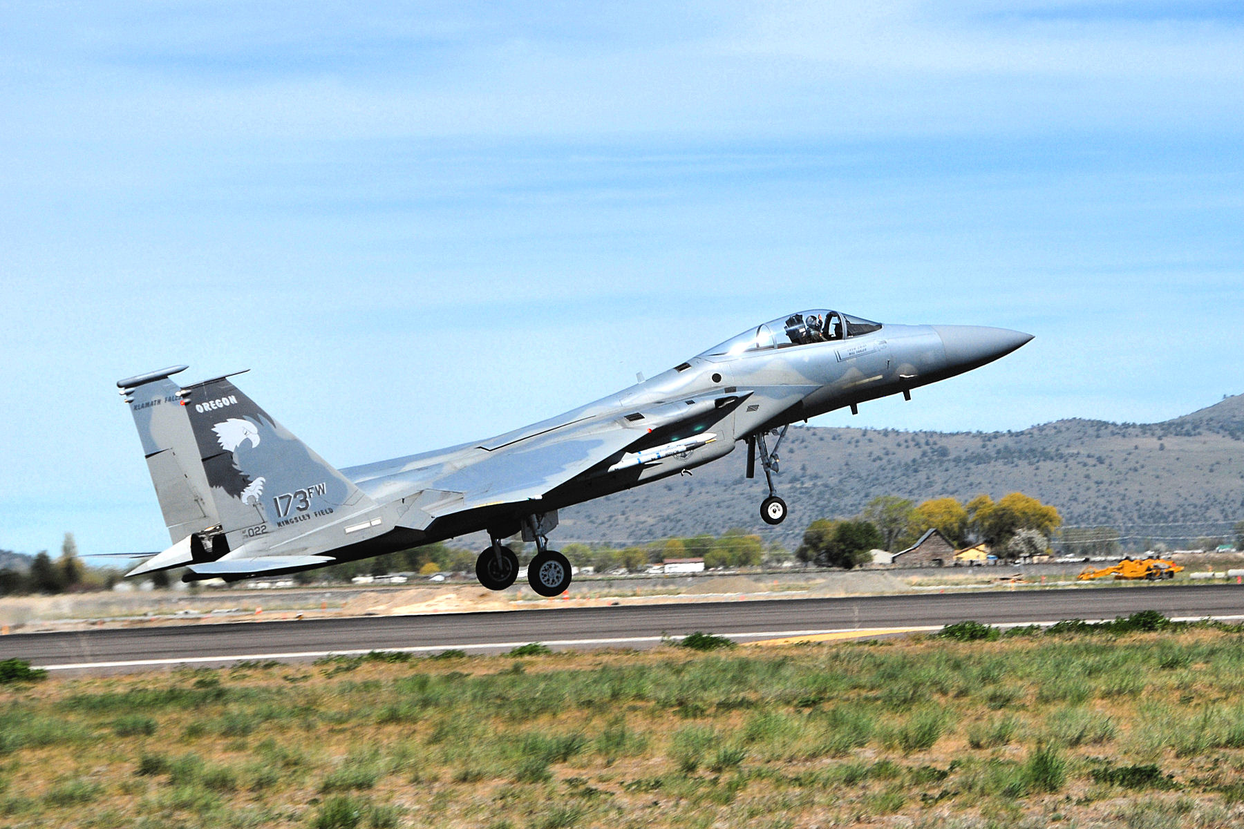 An Ore. Air National Guard F-15 Eagle lands on the runway at Kingsley Field, Klamath Falls, Ore. following a routine training mission May 17, 2008. 79-022 0022 c/n 0554/C091 (36th TFW, deployed with 525th TFS) flown by Capt. Donald S. Watrous of 32nd TFG, 32nd TFS shot down IrAF MiG-23 Jan 28, 1991, Desert Storm. Weapon was an AIM-7M